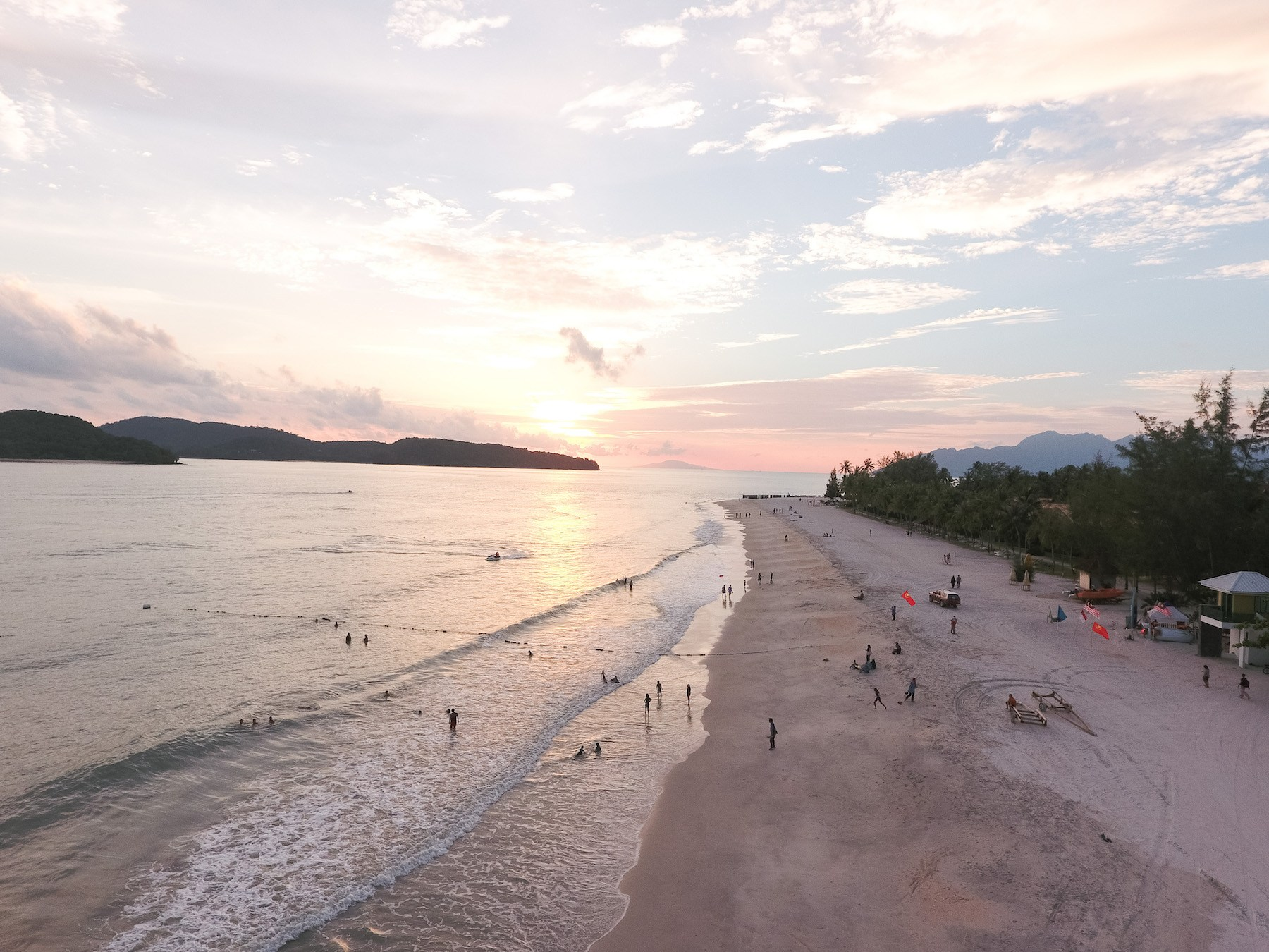 Drone shot of Pantai Cenang Beach at sunset